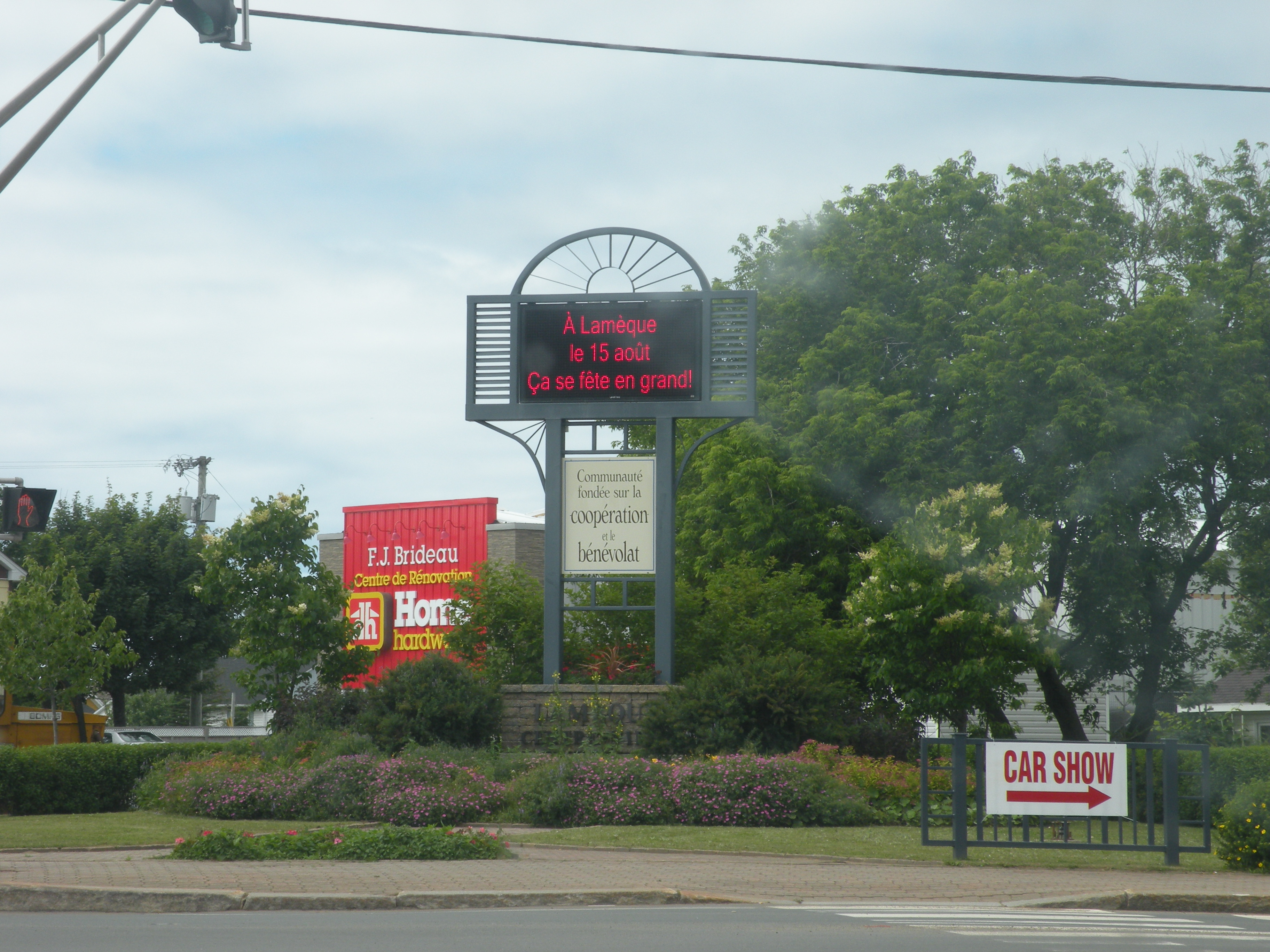 An electronic billboard in Lamèque, New Brunswick, Canada.